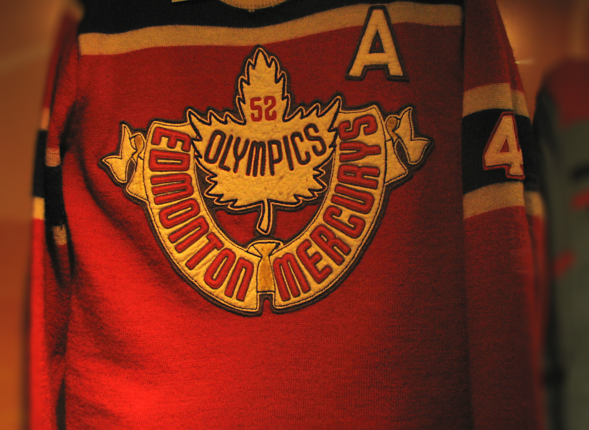 Jersey in 1952 of the Edmonton Mercurys hockey team, the winners of the 1950 World Ice Hockey Championships (different jersey) in London, England, and the gold medal at the 1952 Winter Olympics in Oslo, Norway. On display at the Hockey Hall of Fame, Toronto, Canada. This #4 jersey worn by 1952 Assistant Captain Al Purvis.